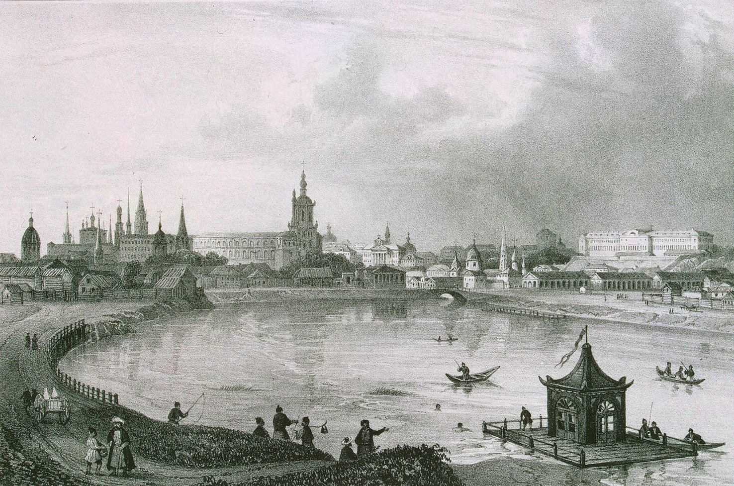 engraving of Kazan in the 19 cnt by Jakote Lui Julien